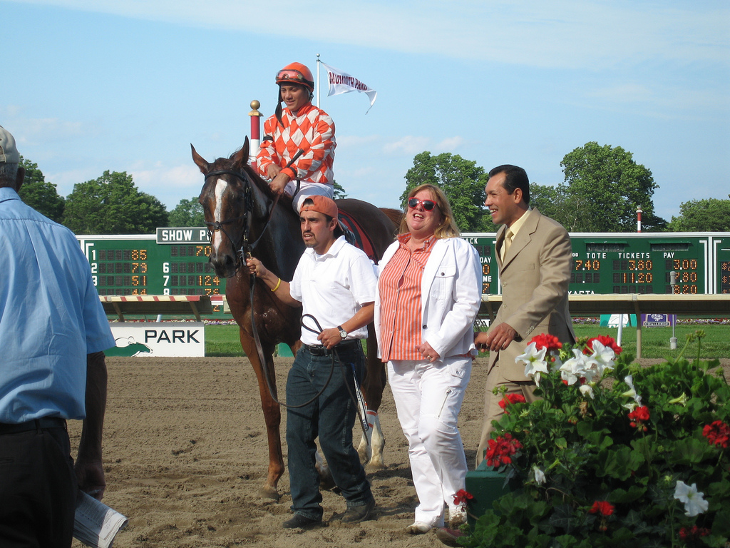 Trainer Mary Hartmann is all smiles as she walks with Presious Passion into the Monmouth Park winner's circle after the United Nations in 2009.